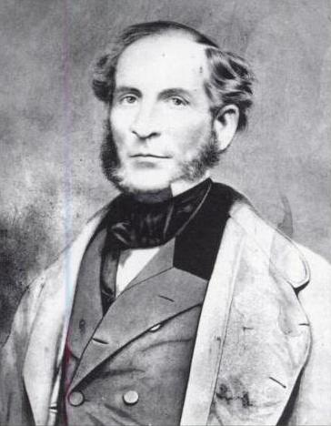 George W. Scranton, US Representative from Pennsylvania